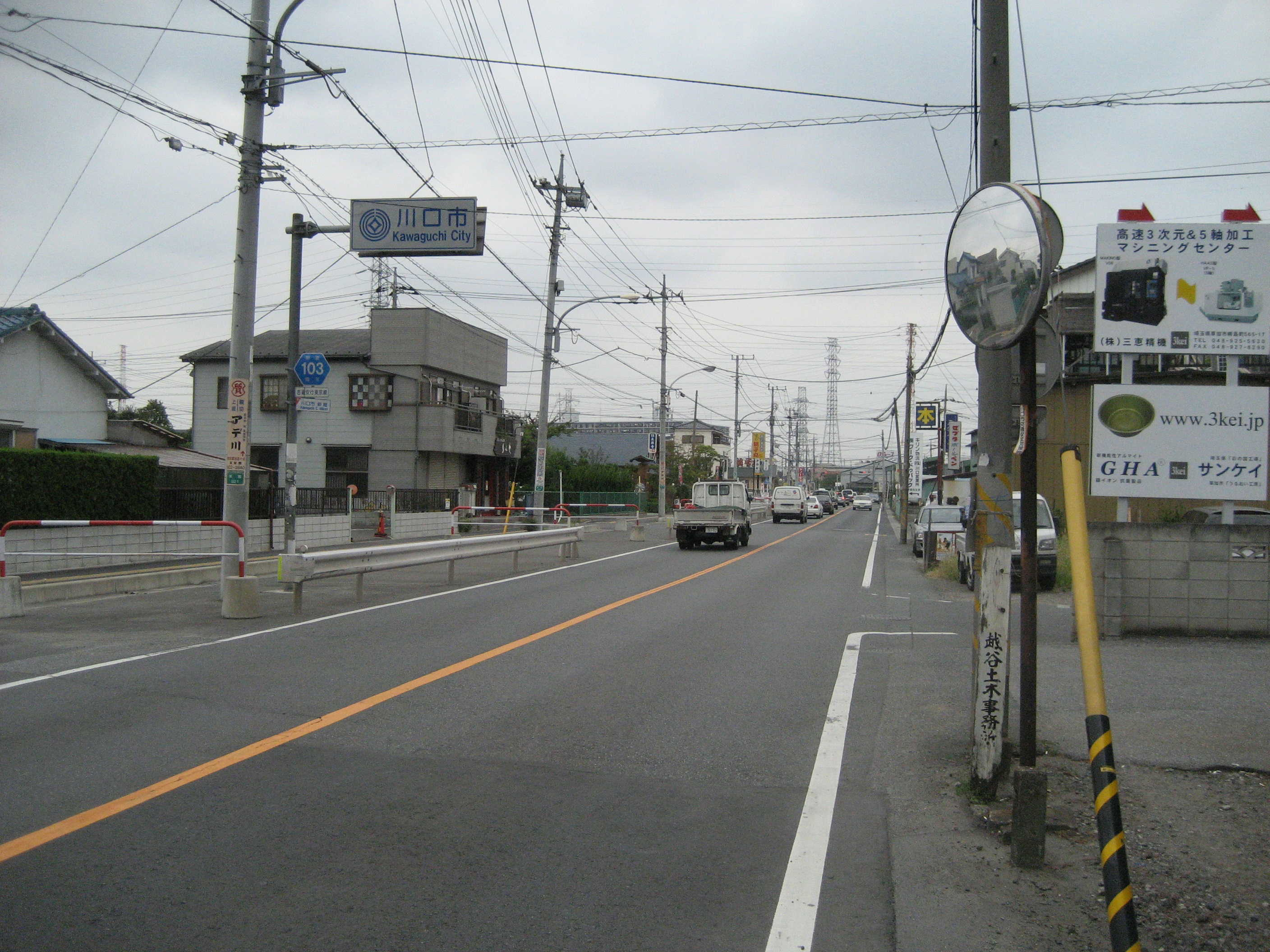 The Saitama Prefectural Road Route 103 on the border between Kawaguchi City and Soka City